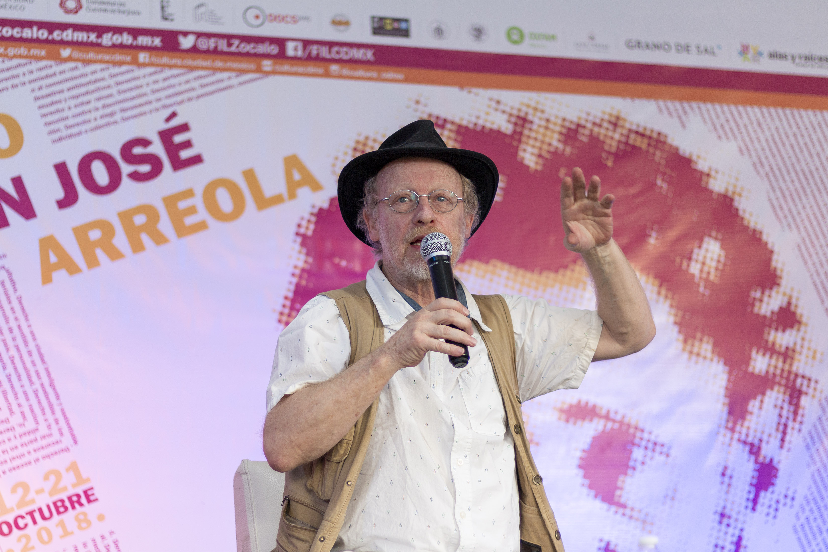 Sábado 13 de octubre 2018. En el Foro Juan José Arreola, de la XVIII Feria Internacional del Libro en Zócalo de la Ciudad de México, Herman Bellinghausen realizó un Homenaje a Alejo Carpentier. Fotografía: Martin Herrera / Secretaría de Cultura CDMX.